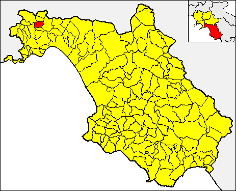 Locator map of the municipality of Castel San Giorgio (red) within the Province of Salerno